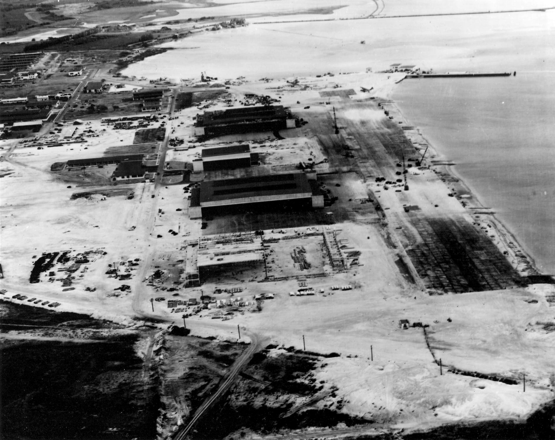 Original Caption: "Aerial view of the hangar area at Naval Air Station, Kaneohe Bay, Oahu, on 9 December 1941, showing effects of the Japanese air attack two days earlier. View looks southeast. The most distant hangar appears to have suffered significant damage and has a pile of aircraft wreckage immediately to its left."